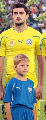 Răzvan Cociş with FC Rostov.